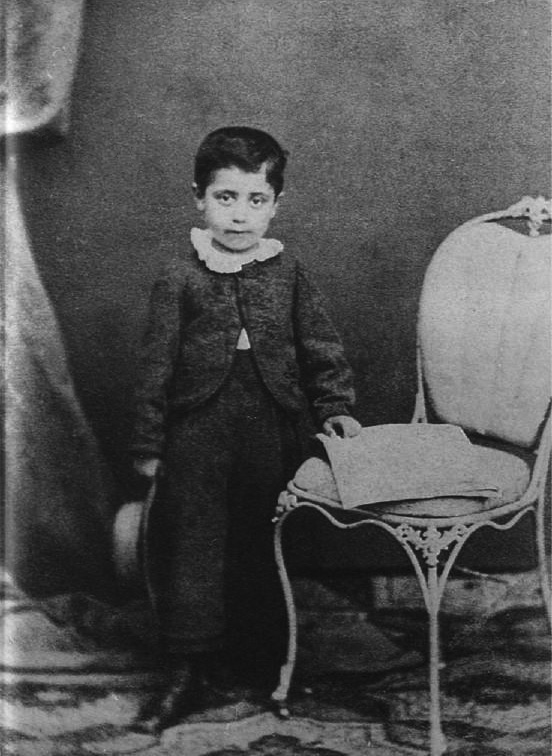 Gustav Mahler when he was a child; this photo was published in: Specht, Richard (1913) Gustav Mahler, Berlin and Leipzig: Schuster and Loeffler, pp. Plate 2 Retrieved on 26 March 2010.